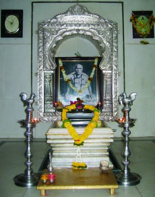 Samadhi Mandir of Shri BrahmaChaitanya Maharaj